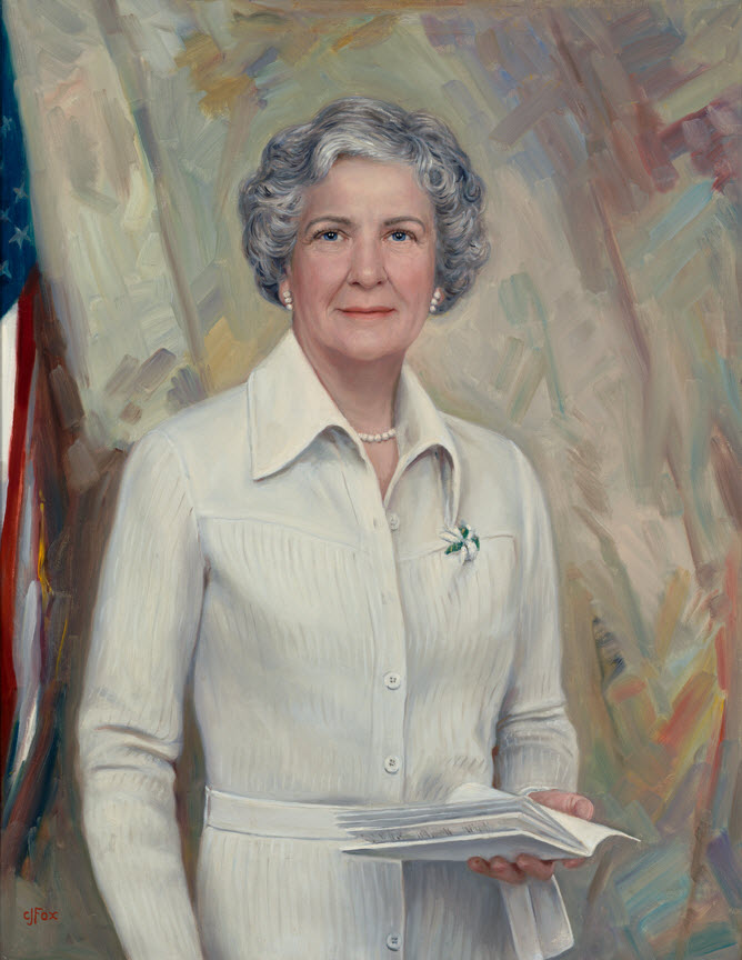 Leonor Sullivan, US Representative from Missouri